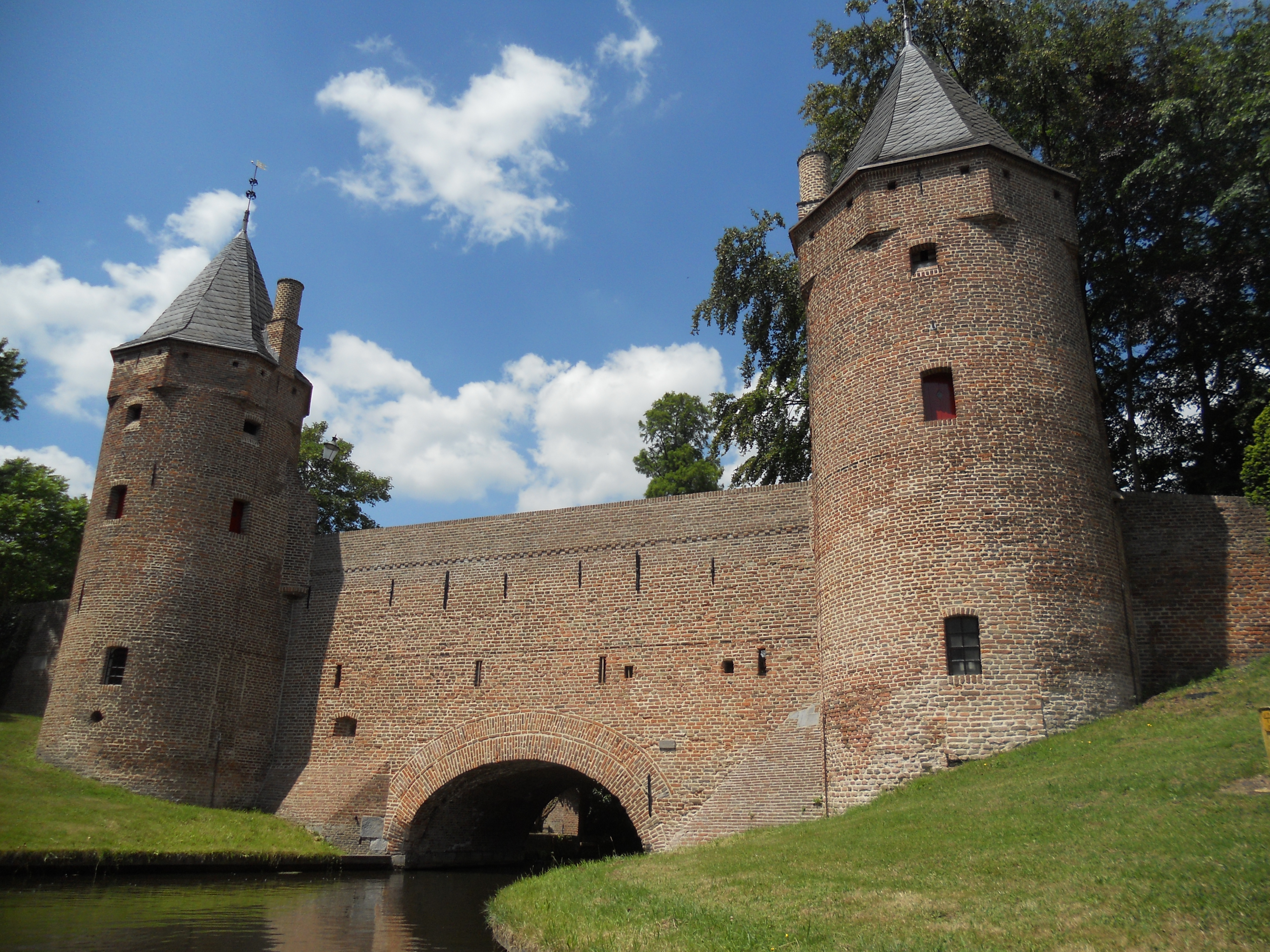 Monnikendam Amersfoort